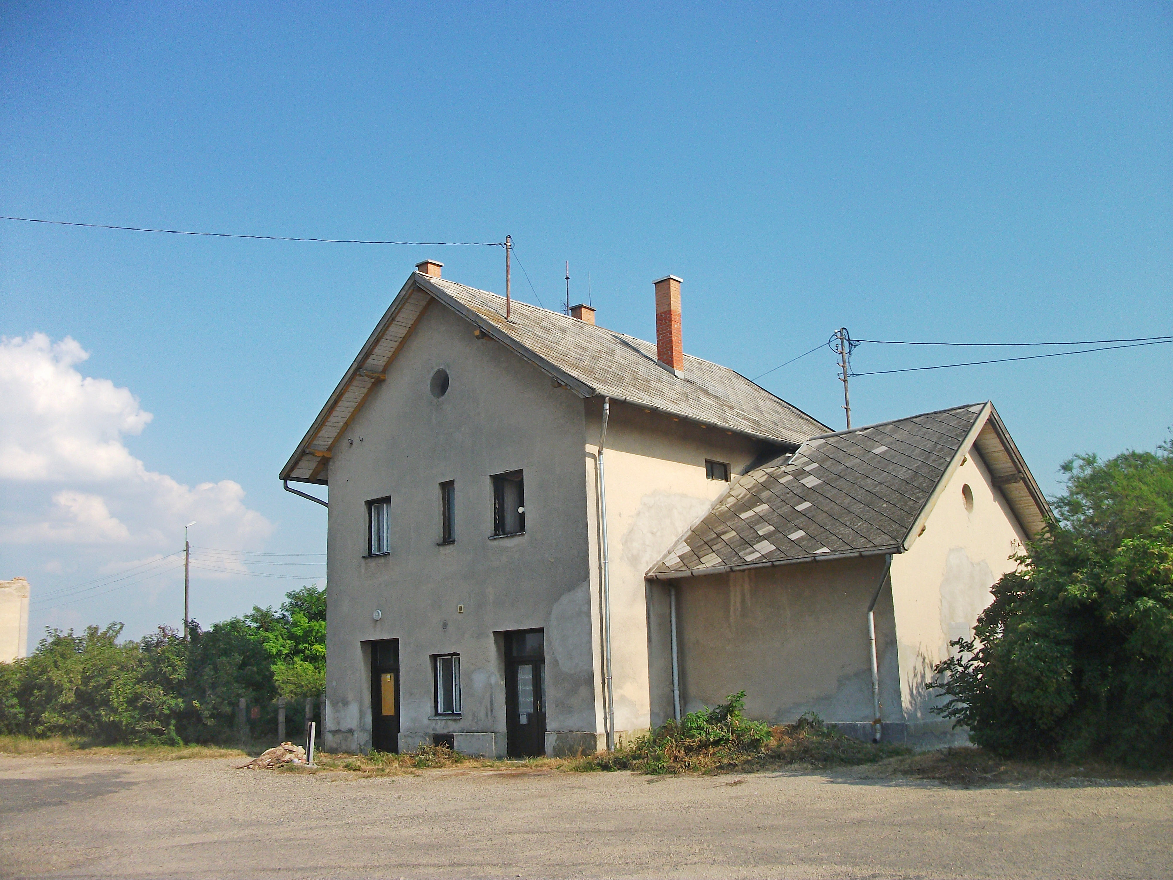 The train station in Zichyújfalu, Hungary.